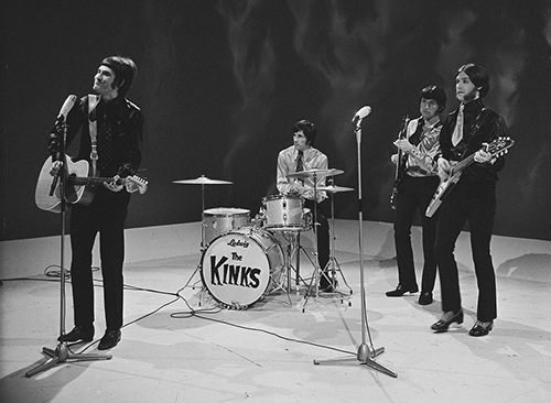 The Kinks on the the television program Fanclub, in 1967. From left to right, Ray Davies, Mick Avory, Pete Quaife, Dave Davies. Ray plays a Fender acoustic guitar and Dave his signature Gibson Flying V.